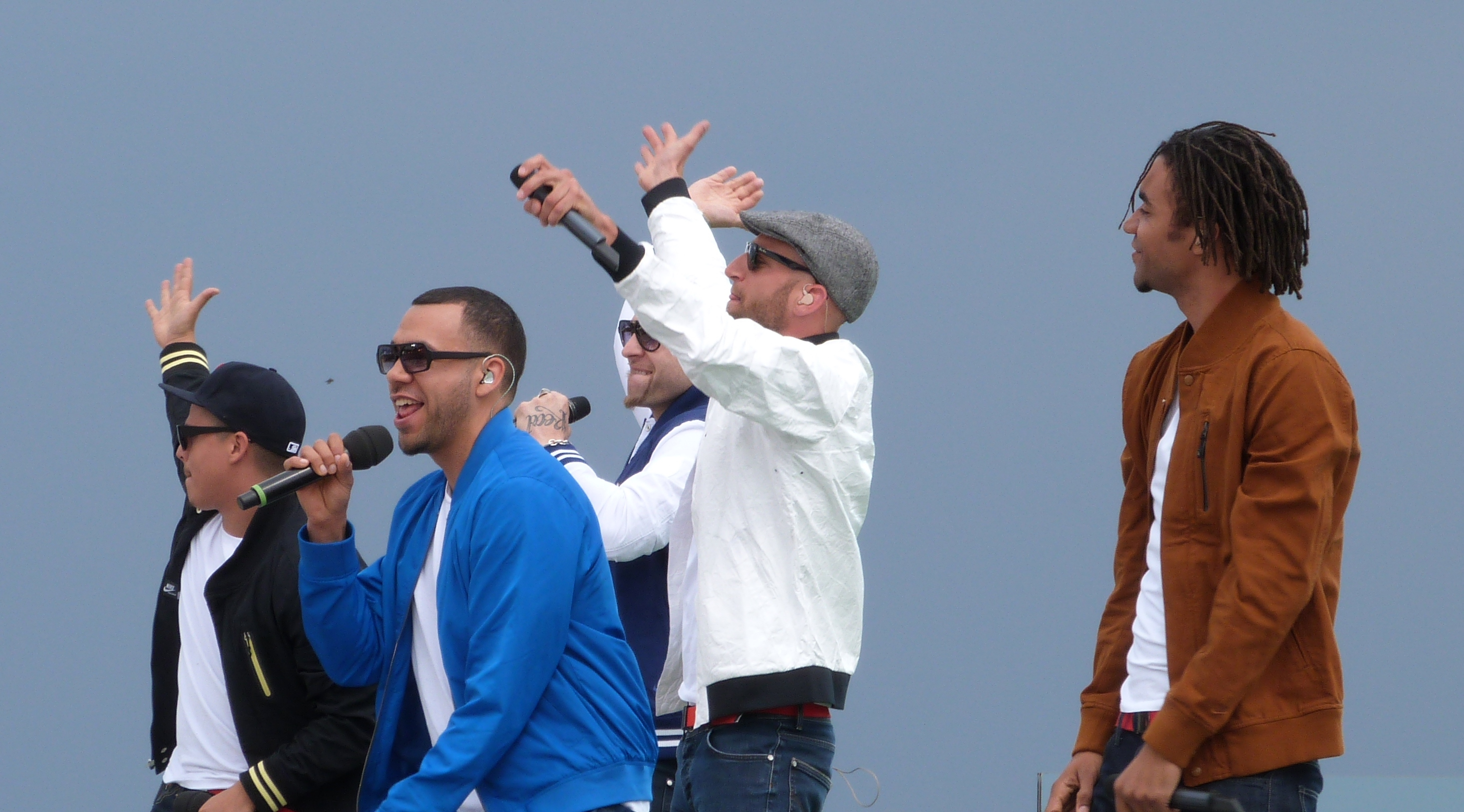 Culcha Candela 2012